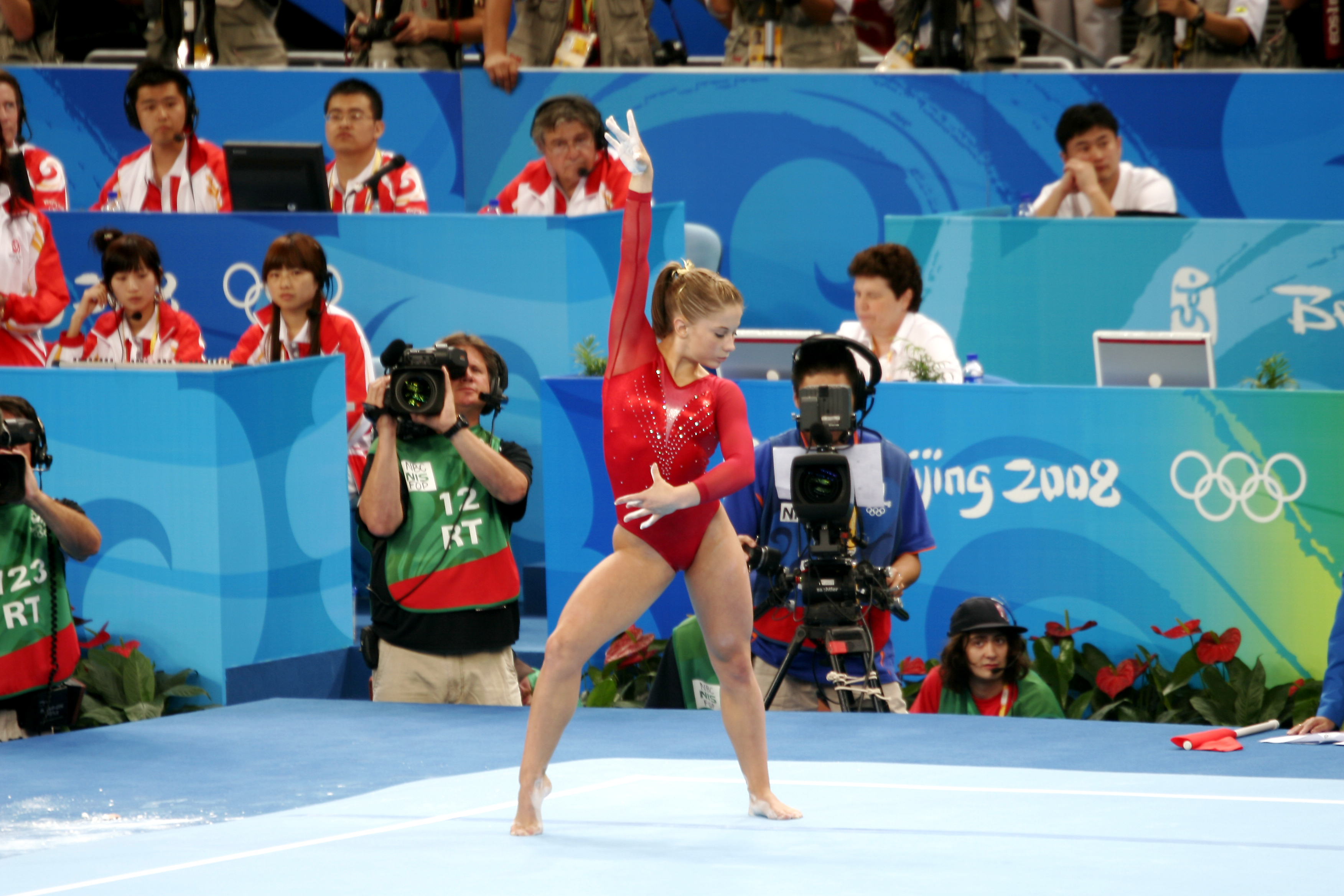 Shawn Johnson begins her floor routine in the individual all-around women's gymnastics competition. She went on to win silver.